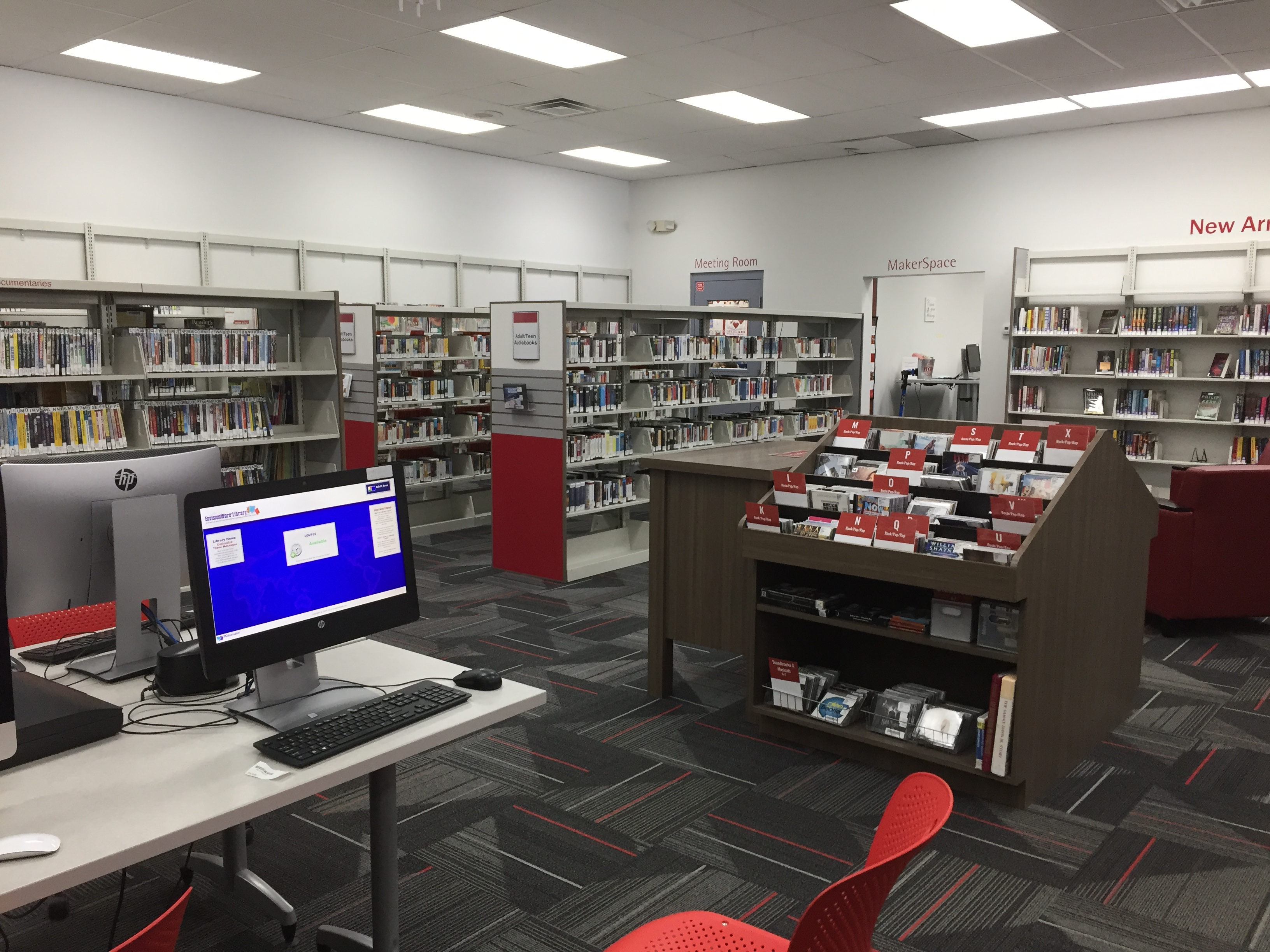 Interior of the Loveland Branch of the Public Library of Cincinnati and Hamilton County in 2019